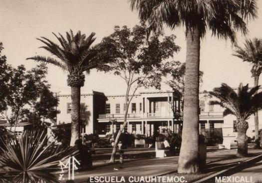 Image of Cuauhtemoc School building, which would house Mexicali High School and later become the city's House of Culture.